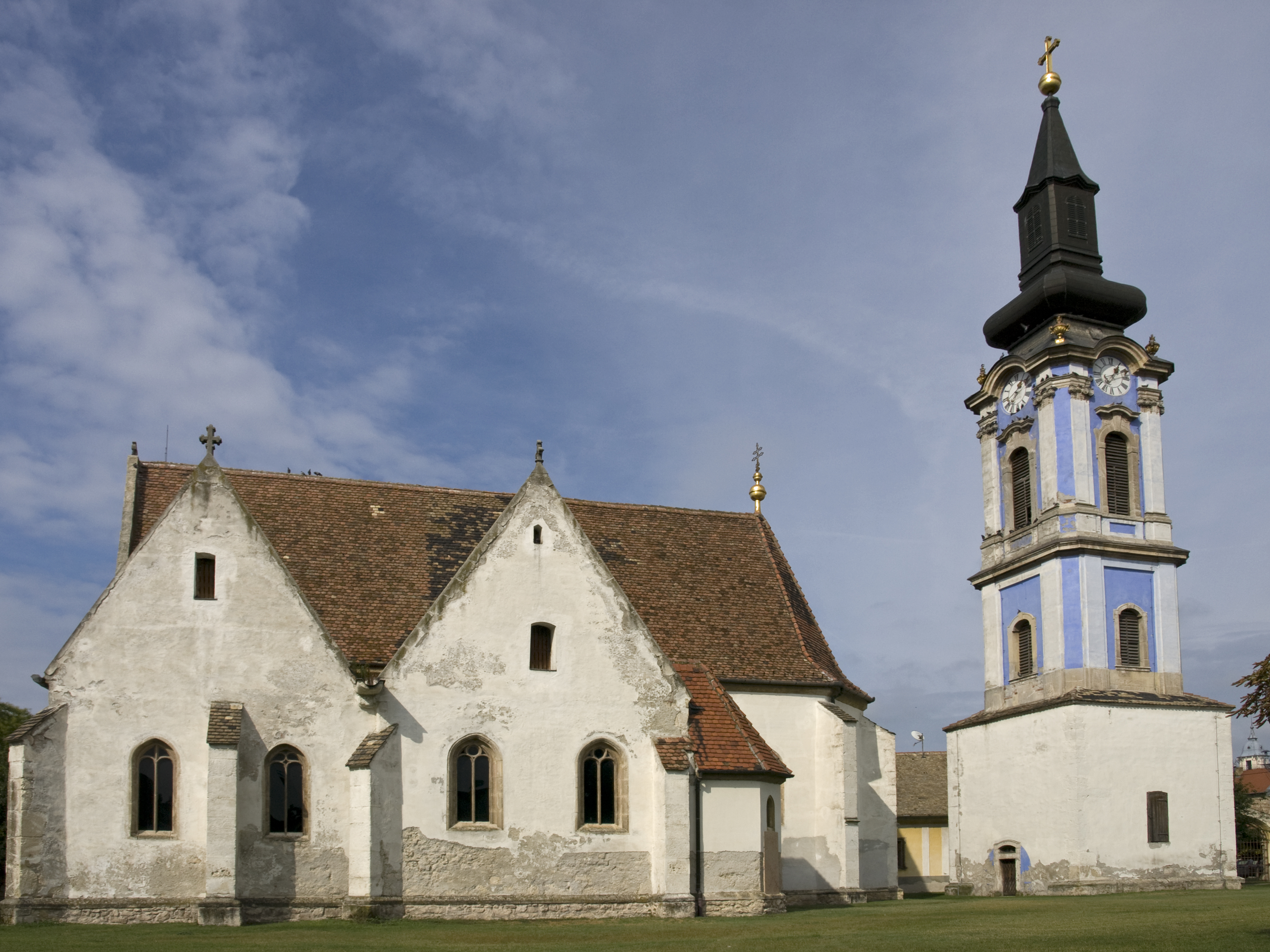 Serbian church of Our Lady (Rackeve)